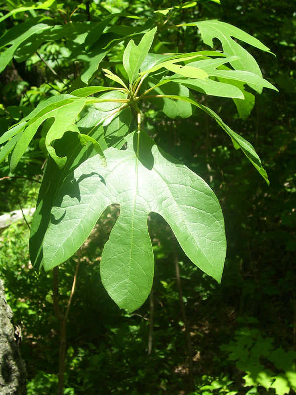 Photograph of Sassafras